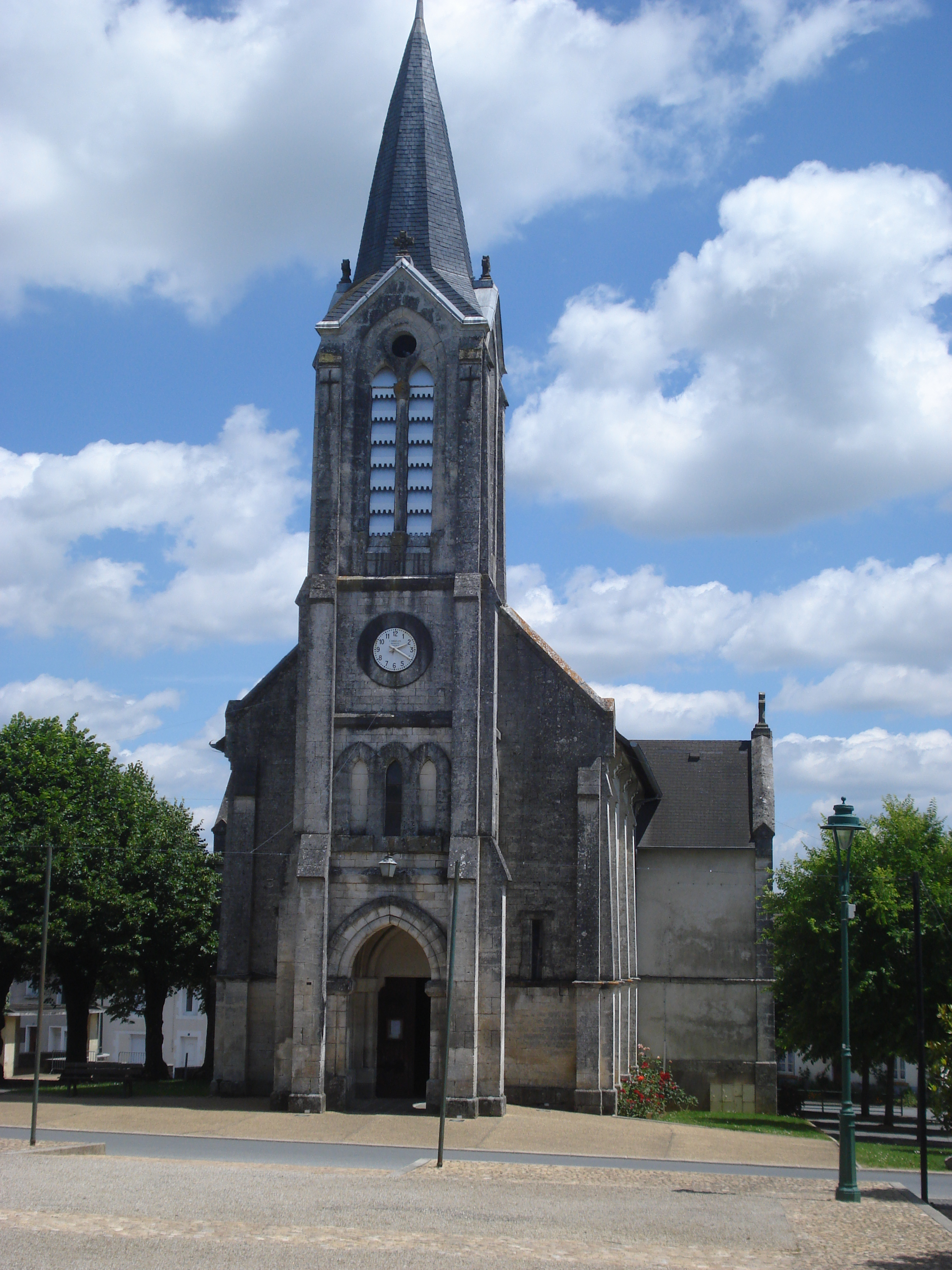 La Coquille (Dordogne, Fr), church